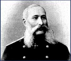 Photo of Amand Struve. 19th century.